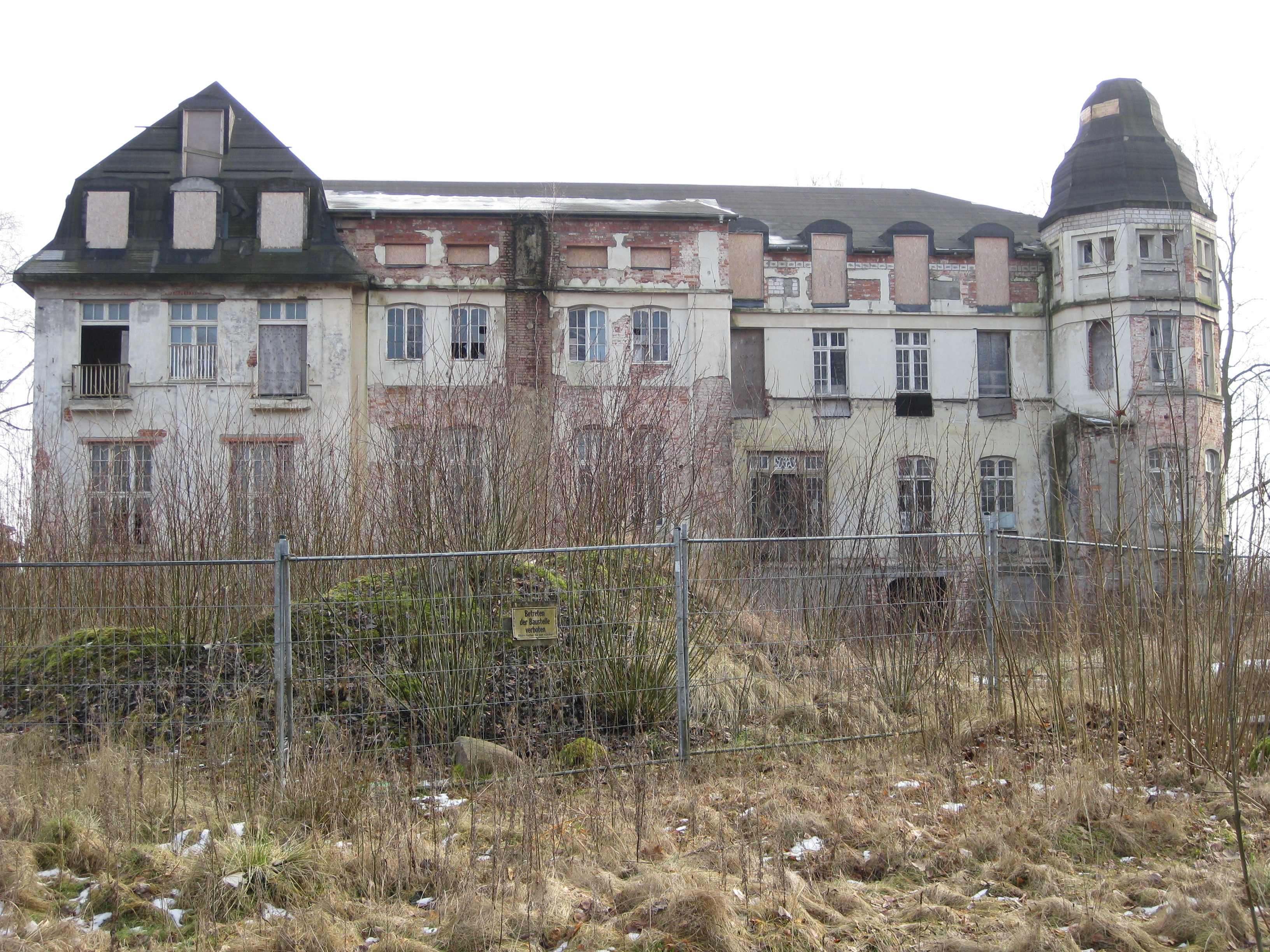 Ruined Pötenitz manor from park side.